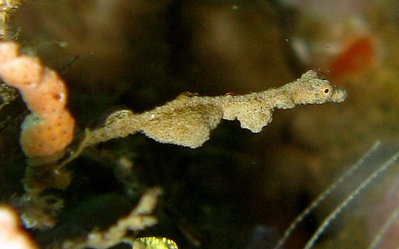 Kyonemichthys rumengan, Nudi Falls - Lembeh Straits with TwoFish Divers